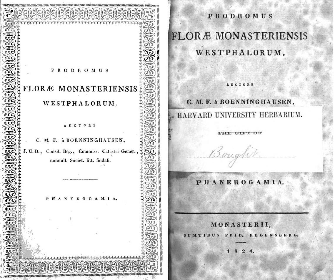 Title page from the book Prodromus Florae Monasteriensis Westphalorum, Phanerogamia. by Clemens Maria Franciscus von Bönninghausen